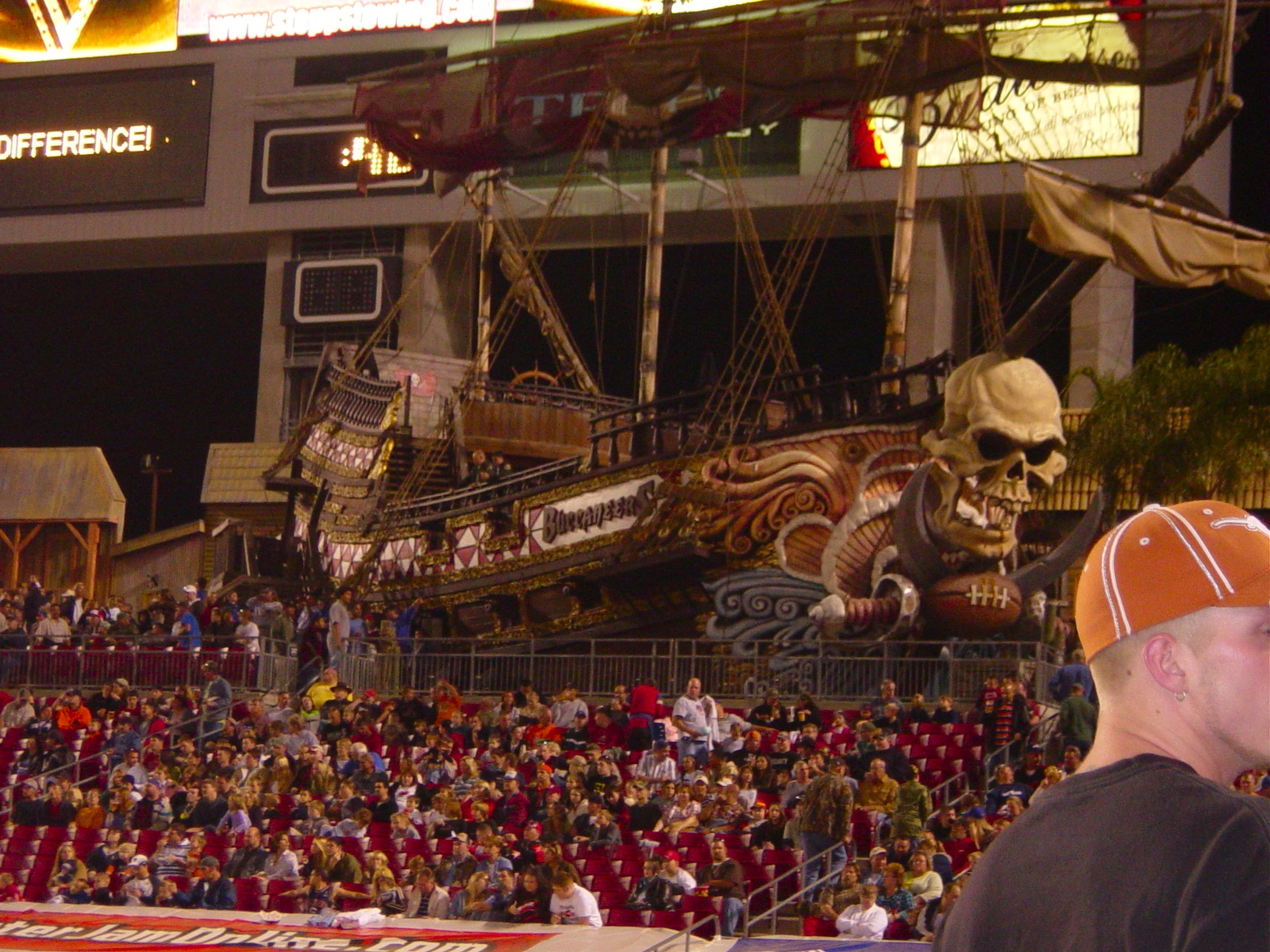 The pirate ship at Raymond James Stadium, Jan. 20th 2007 during Monster Jam 2007 15:51, 21 January 2007 . . HappyHarvick2962 . . 1600×1200 (1,342,060 bytes)